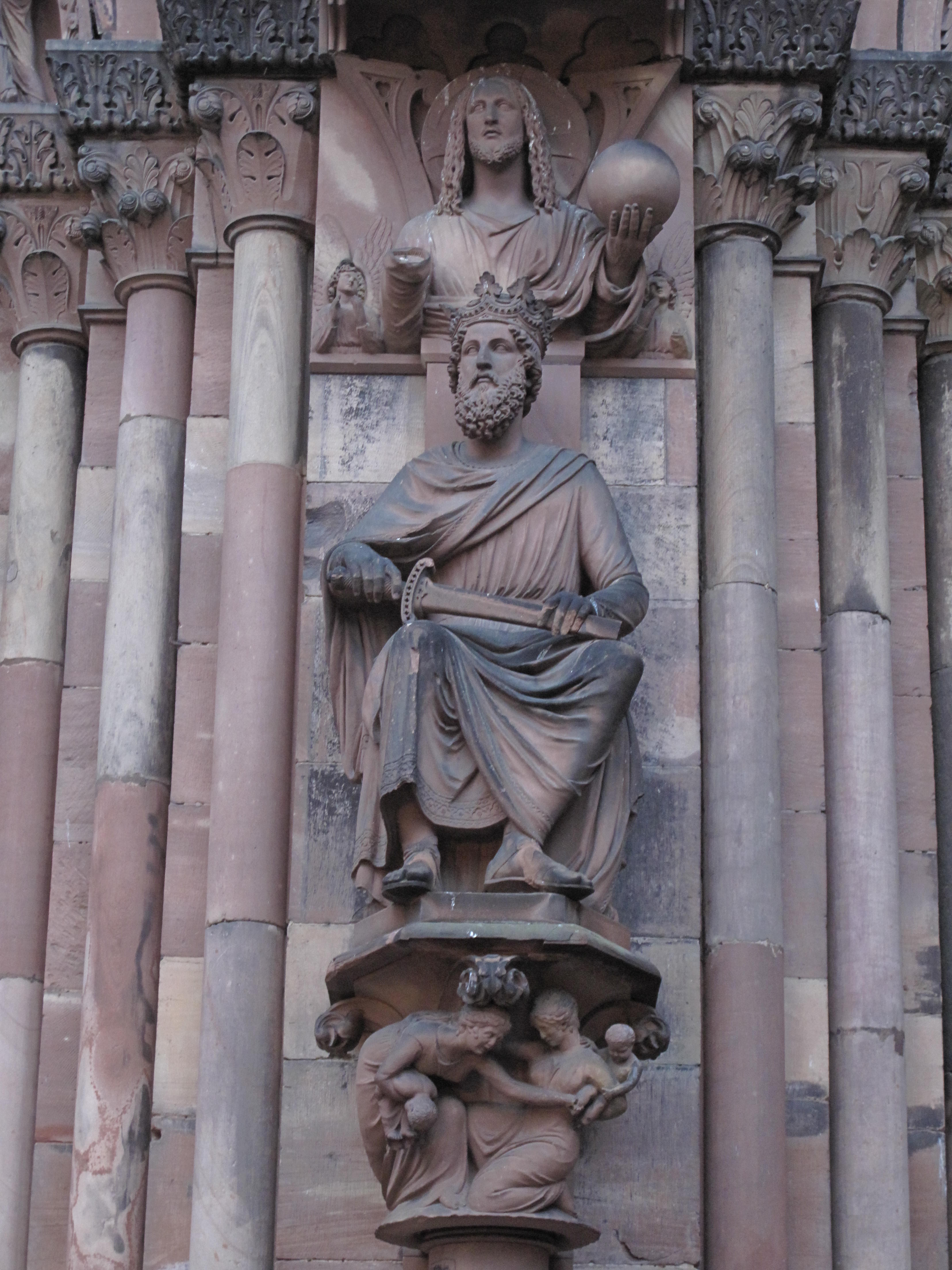 Statue of the king Solomon (with at the bottom a sculpture of the judgement of Solomon) in the center of the south portal of the cathedral Notre-Dame of Strasbourg (Bas-Rhin, France).